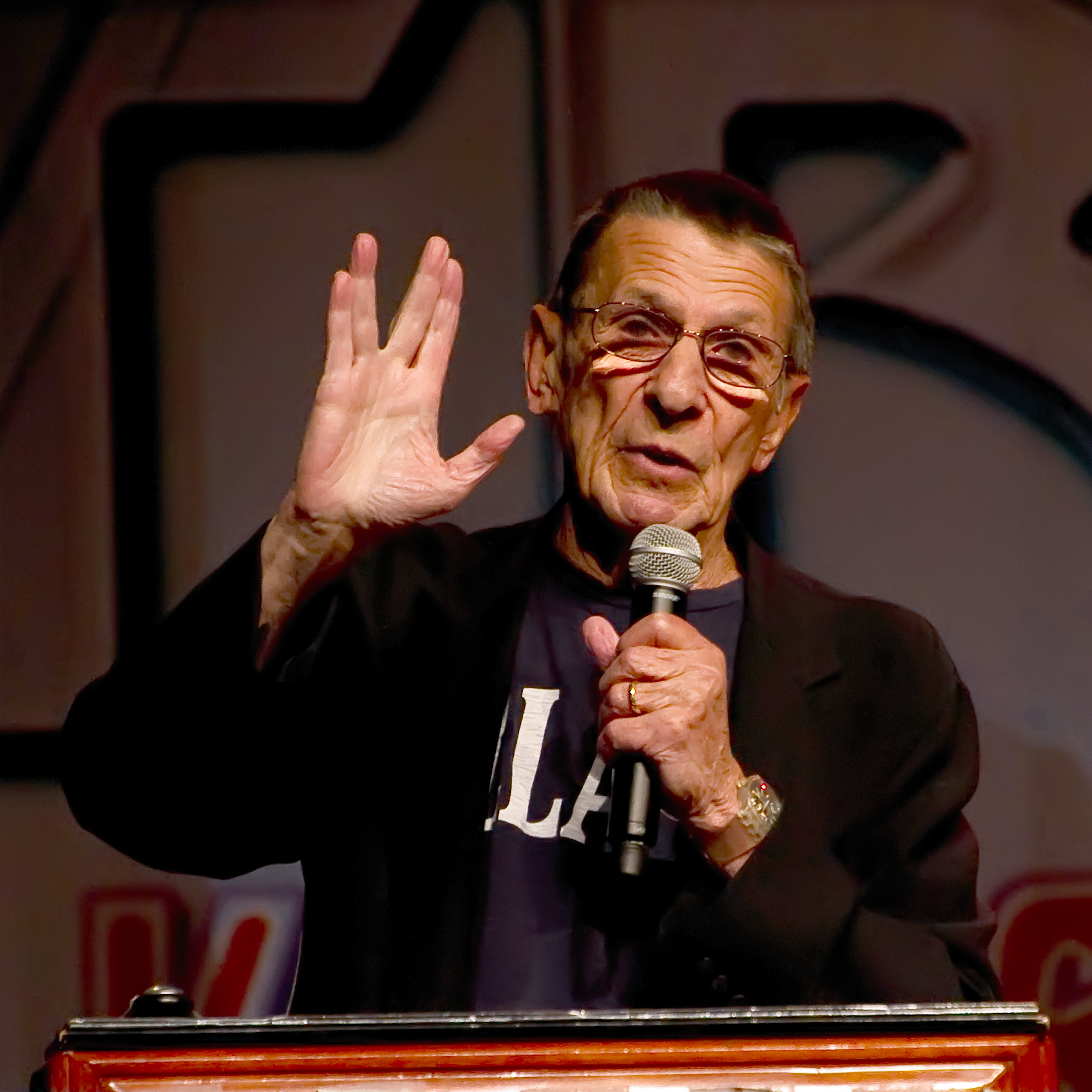 Leonard Nimoy (Spock) at the Las Vegas Star Trek Convention 2011.